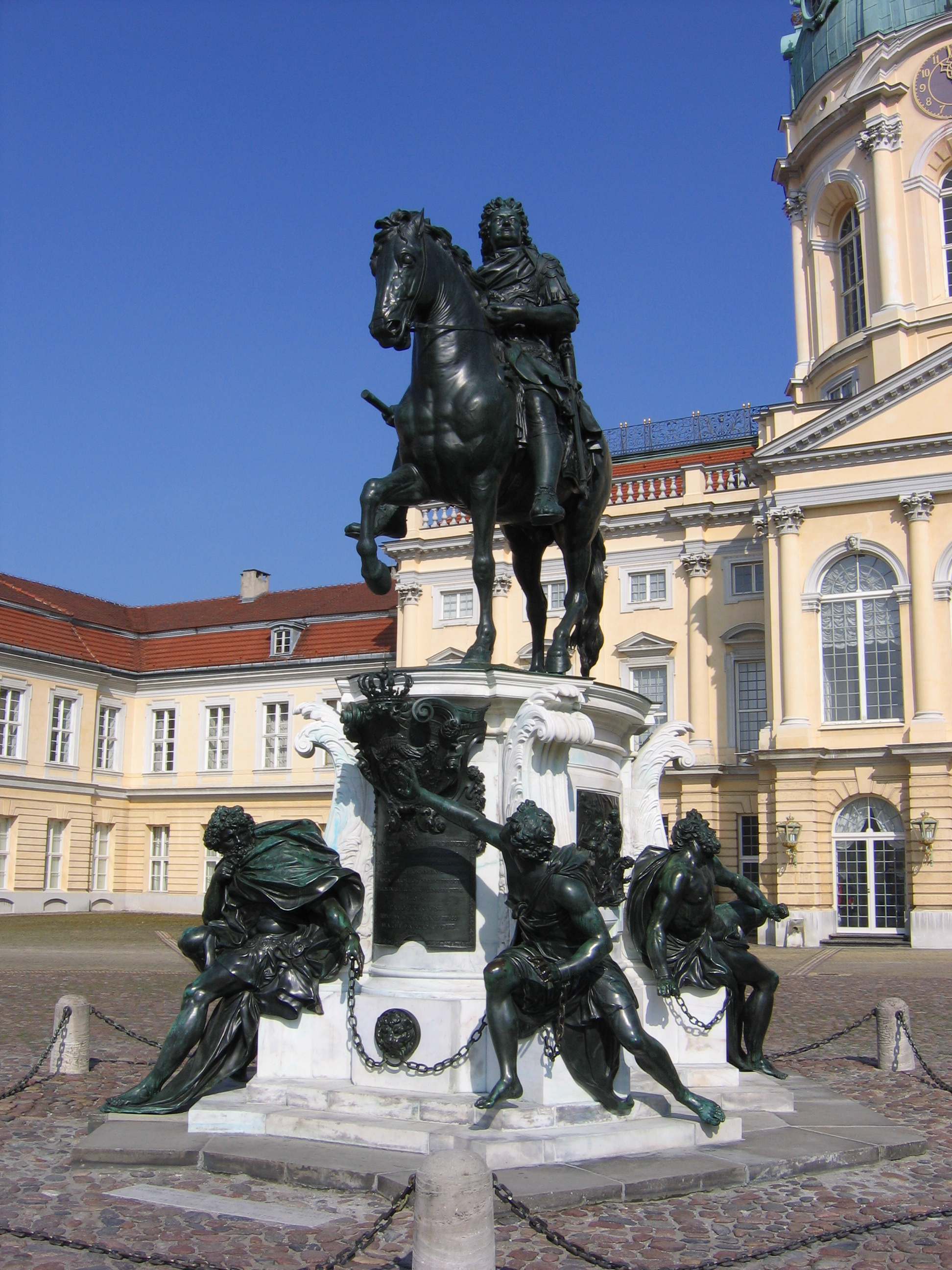 Charlottenburg Palace